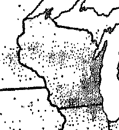 Distribution of Milk sold as whole milk in Wisconsin in 1929. 1 dot = 1,000,000 gallons (county unit basis)